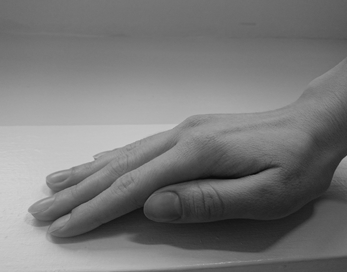 Picture of a hand. Kae portree.